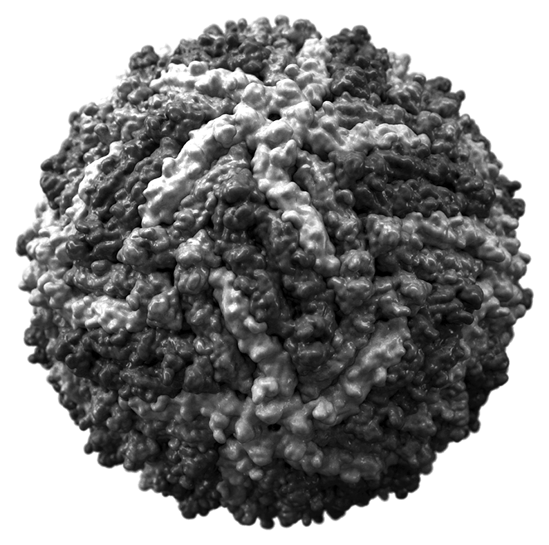 3D reconstruction of Zika virus, based on cryo-EM map by Devika Sirohi, Zhenguo Chen, Lei Sun, Thomas Klose, Theodore C. Pierson, Michael G. Rossmann, Richard J. Kuhn (The 3.8 Å resolution cryo-EM structure of Zika virus) PROTEIN DATA BANK ID: 5IRE